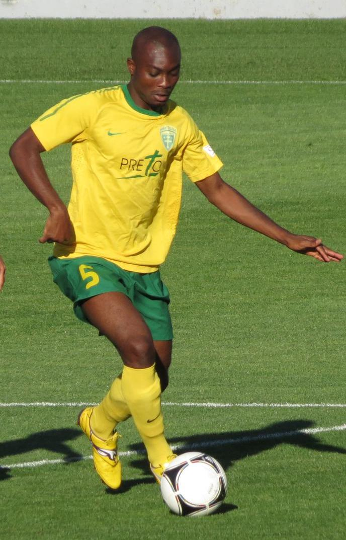 This is a photo of Togolese footballer Serge Akakpo